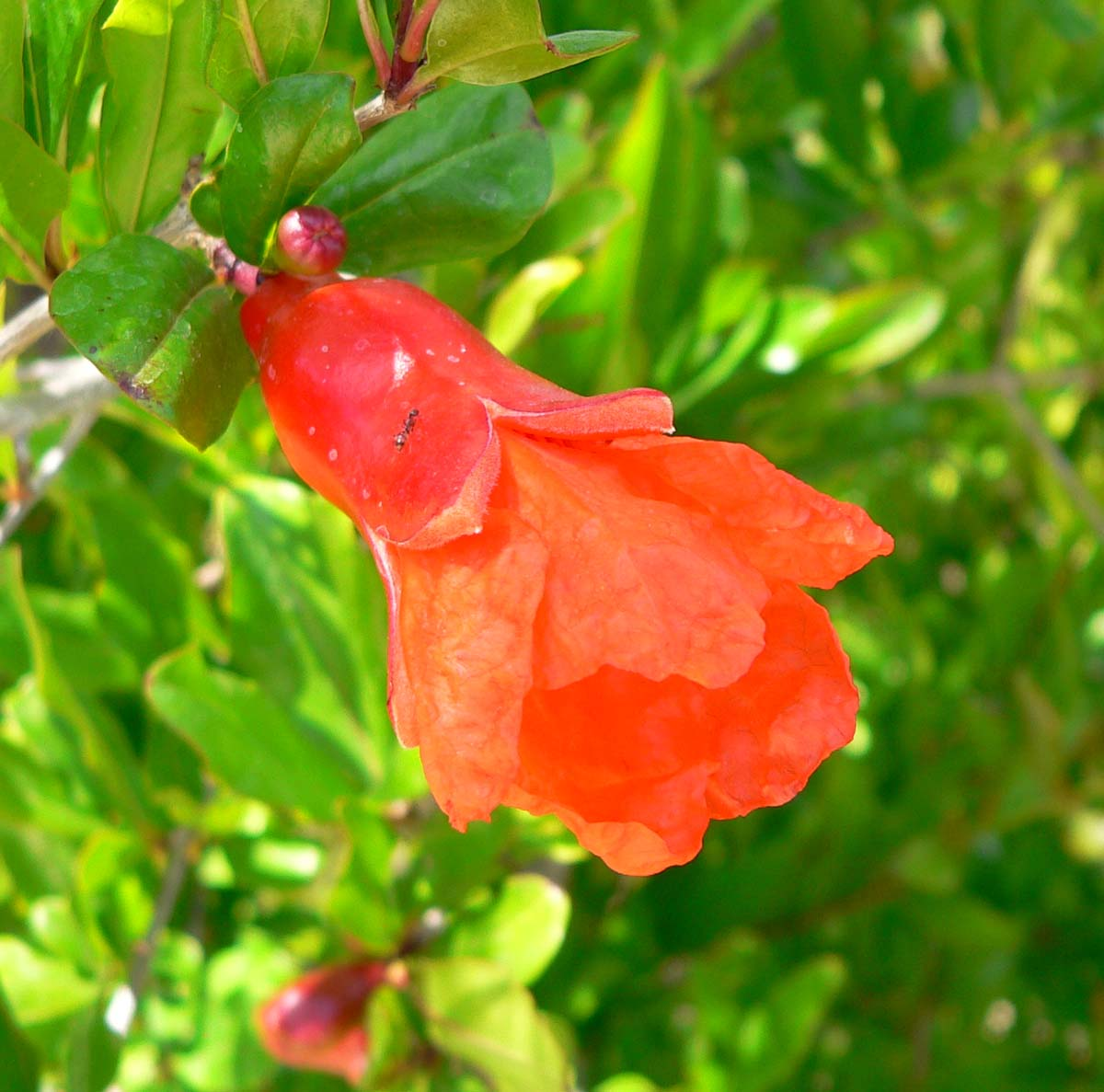 Photo of Punica granatum 'Nana' flower at the Desert Demonstration Garden in Las Vegas, Nevada